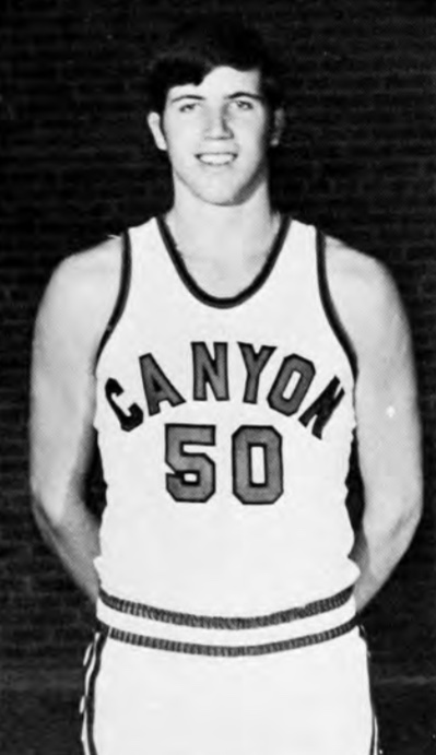 American college basketball player Bayard Forrest of Grand Canyon University from the 1973 GCU “Canyon Trails” student yearbook